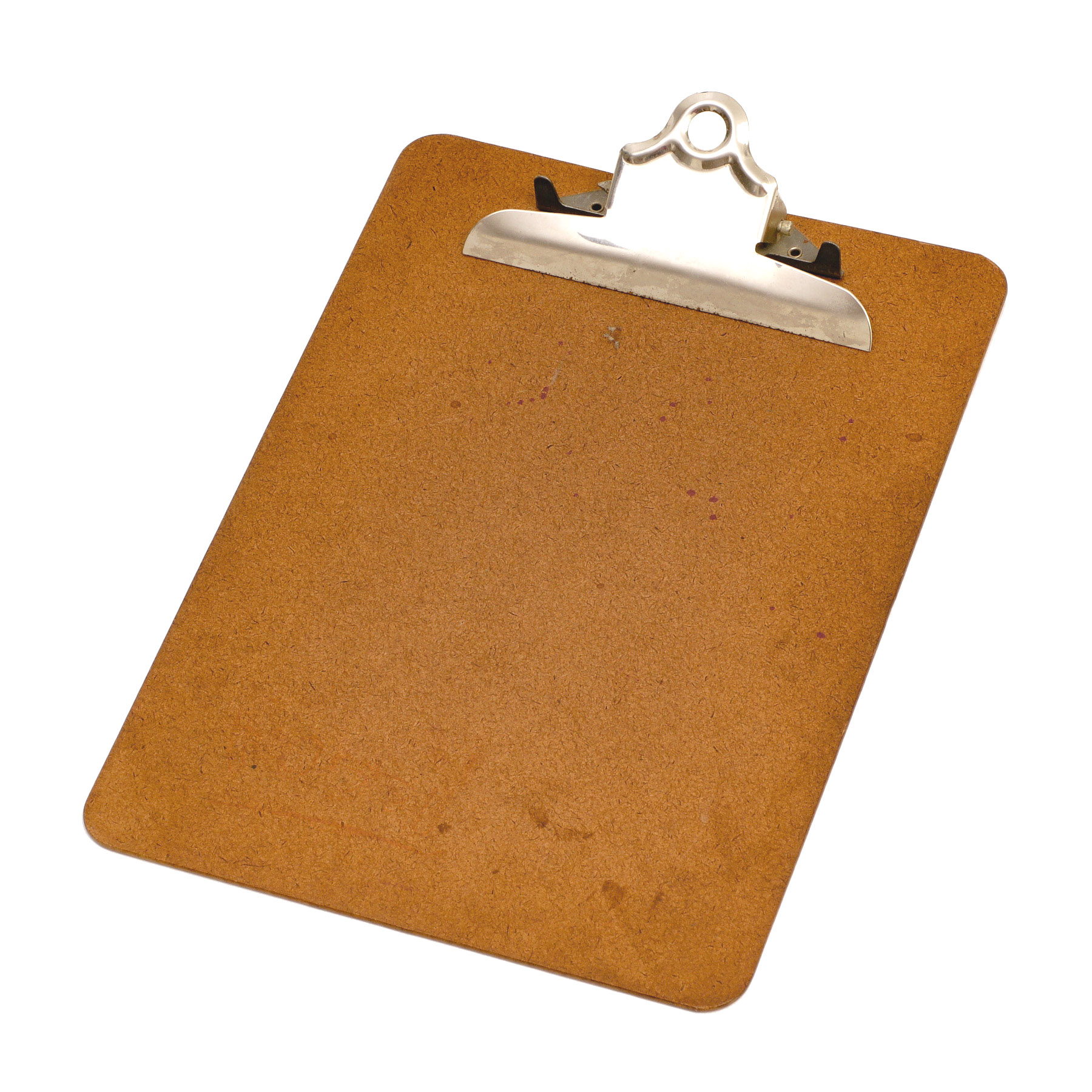 A common clipboard.